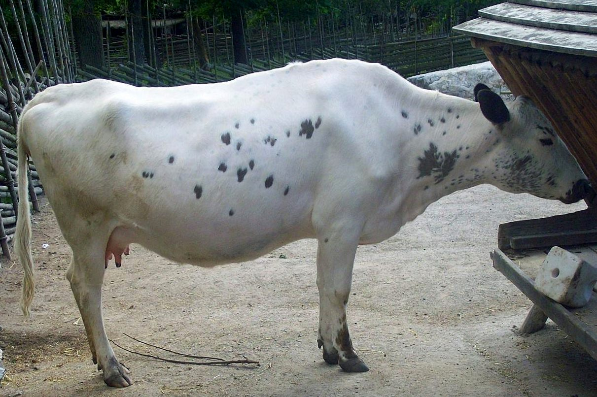 "Unique swedish mountain cattle" (Fjällnära ko): In a few isolated part of northern Sweden, groups of cows have been found which have lived in isolation for many generations and, consequently have the same appearance and characteristics as previously. Theses mountains cattle can sirvive on small quantities of meagre fodder and still give milk. They are small and hornless. White is their main colour, with brown or black markings. The breed is acutely endangered.